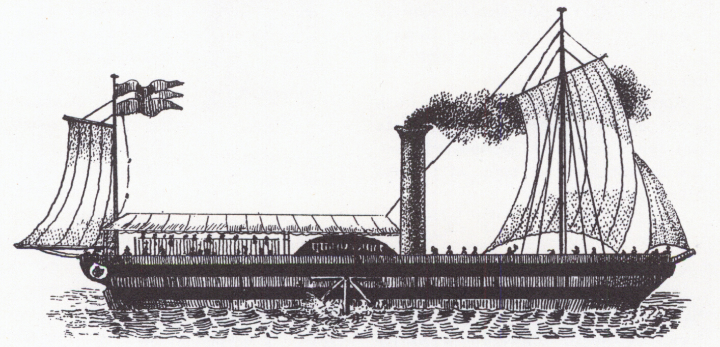 Picture of drawing of ship Yngve Frey in Mälaren